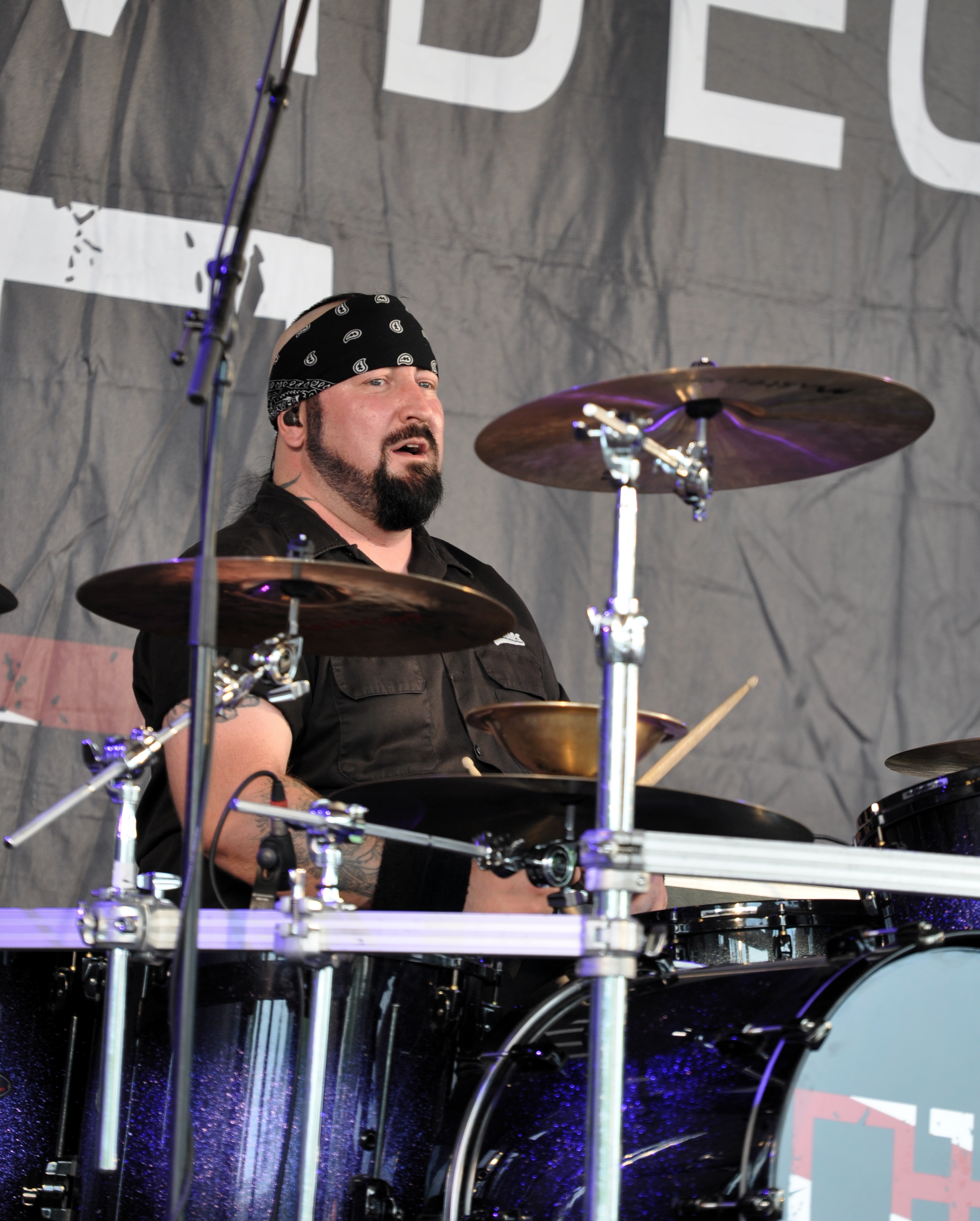 Korl Fuhrmann of A Life [Divided] at Amphi Festival 2013, Cologne, Germany